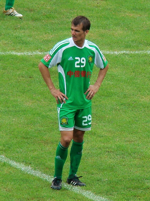 Joel Griffiths in Yuexiushan Stadium